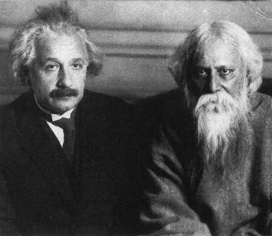 Albert Einstein (left) and Rabindranath Tagore. This image was taken by American photographer Martin Vos in 1930 and also published in 1930 without explicit copyright notice.